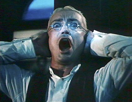 Narcissus in Vienna